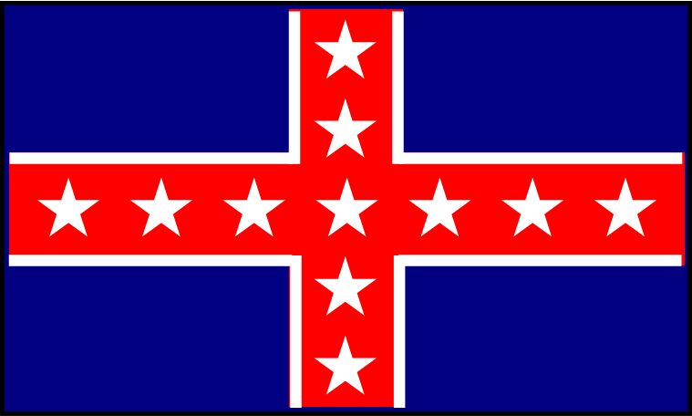 Polks corps flag